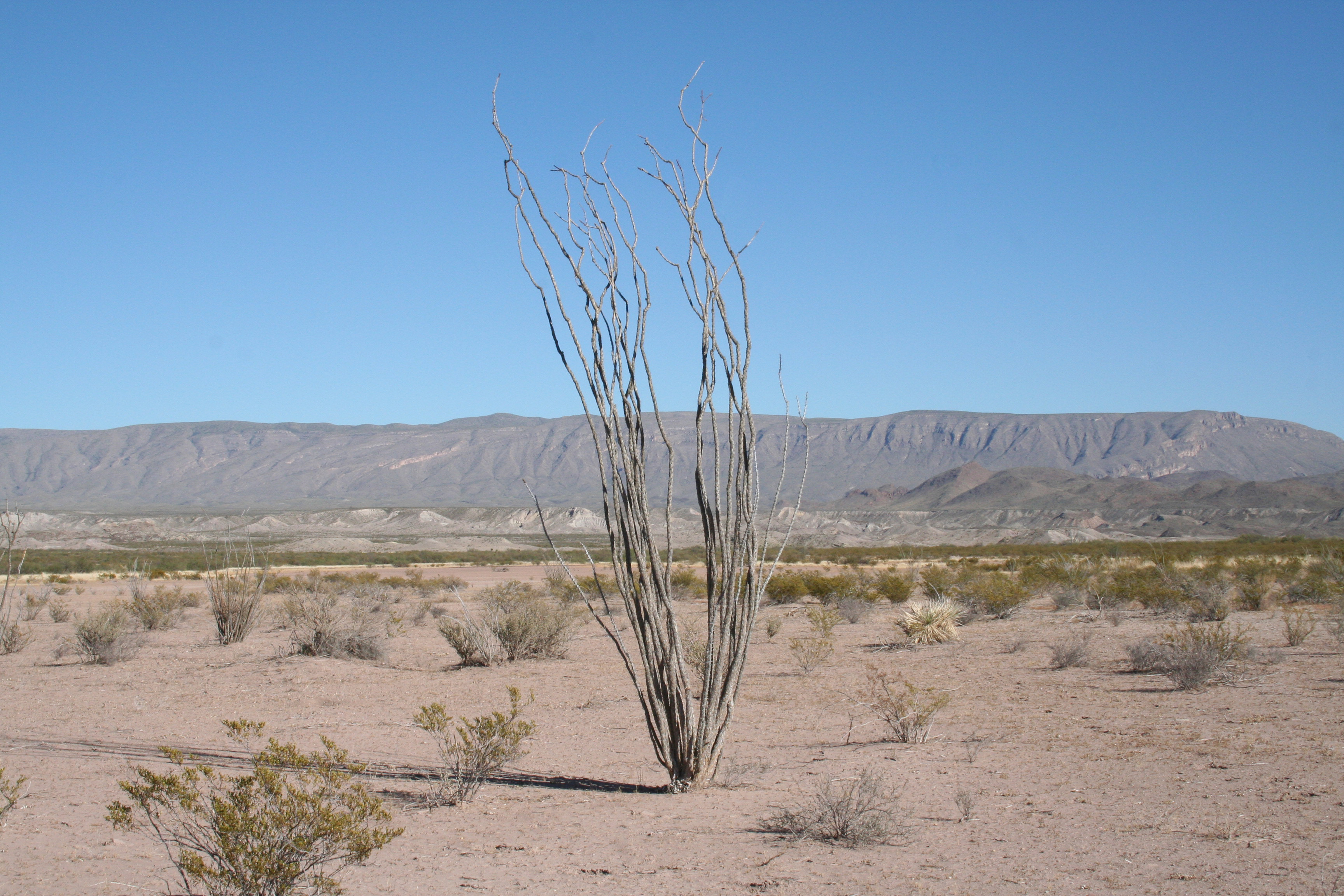 Ocotillo plant (Fouquieria splendens) in the Chihuahuan Desert of Big Bend National Park (Texas) with a portion of the Sierra del Carmen mountain range in the background.